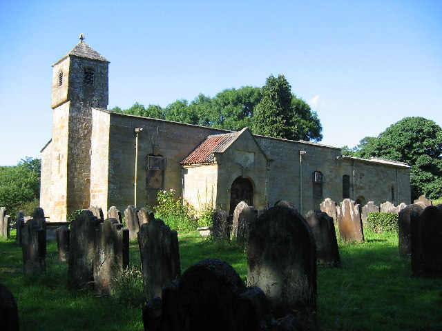 Ingleby Greenhow Church. Situated in the west side of the grid square.